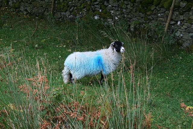 Blue Sheep Marked for identification, on the west side of Haweswater.